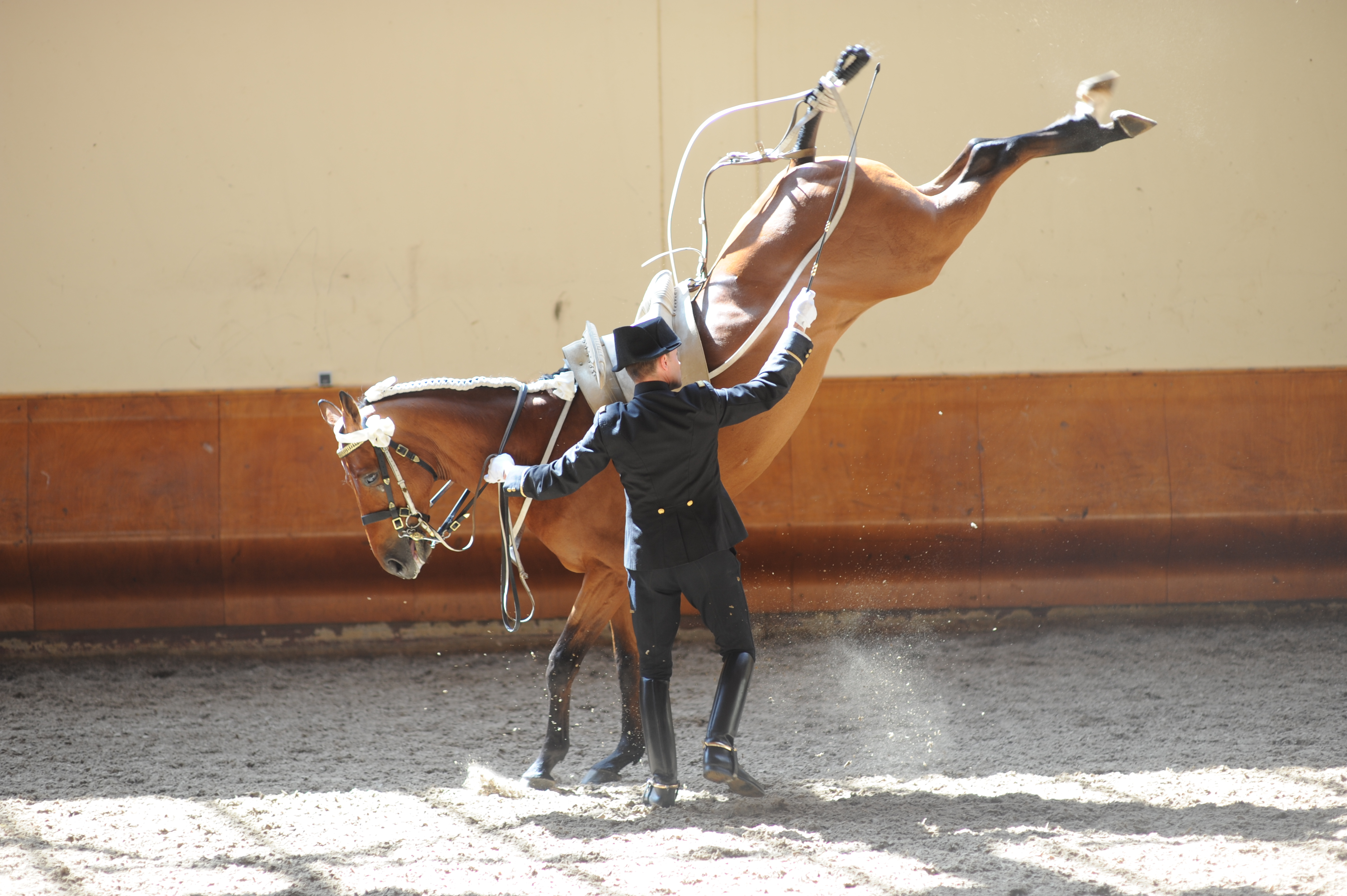 This photograph was taken by a Wikipedian, or provided by the Cadre noir, during a special day in May 2012 English | français | +/−